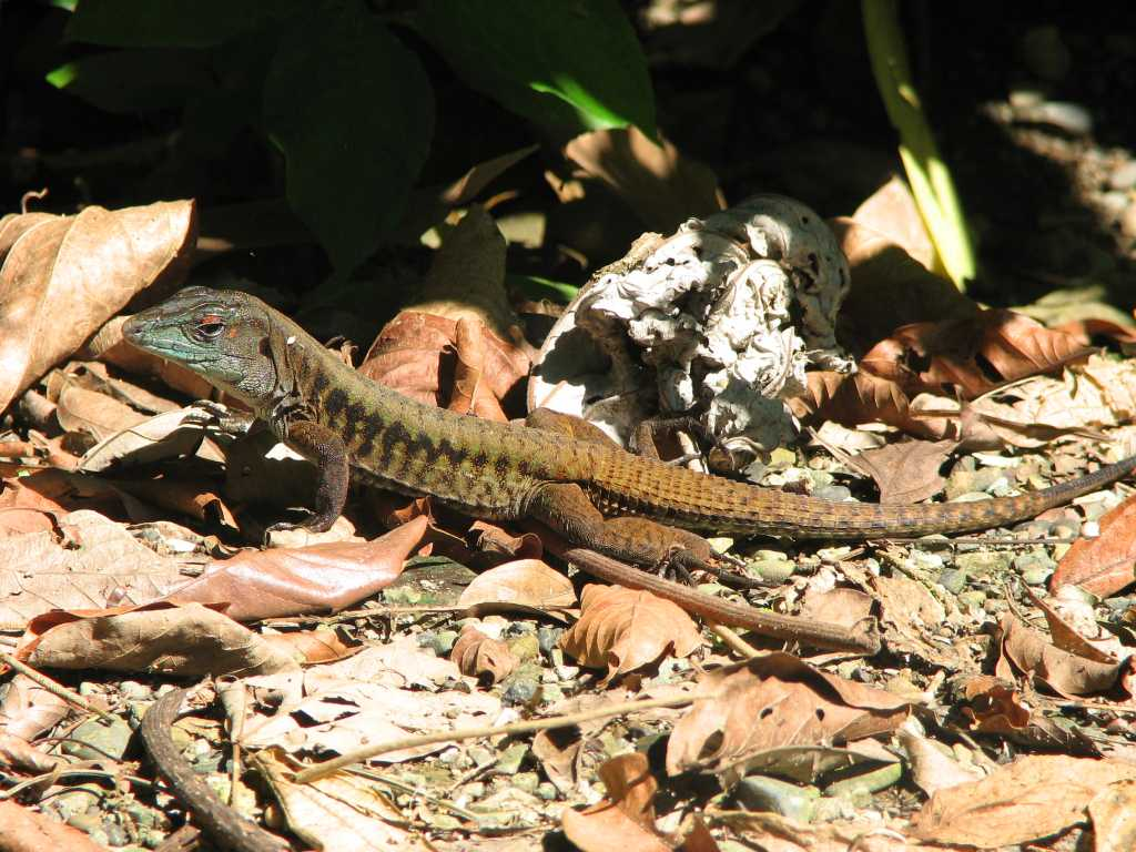 Delicate Ameiva (Ameiva leptophrys), Manuel Antonio Park, Costa Rica